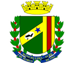 Coat of arm of the city of Mâncio Lima, Acre, Brazil.